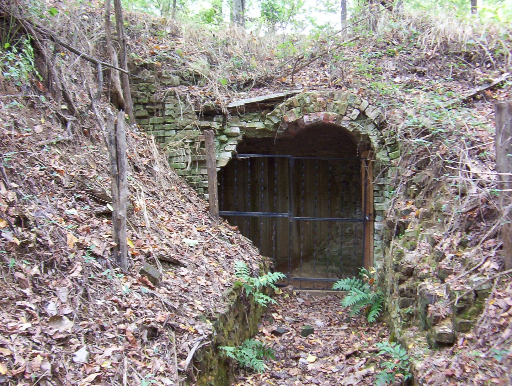 Entrance of the powder magazine of Fort Wright (historical) in Randolph, Tennessee. I made the photo myself, feel free to use it.